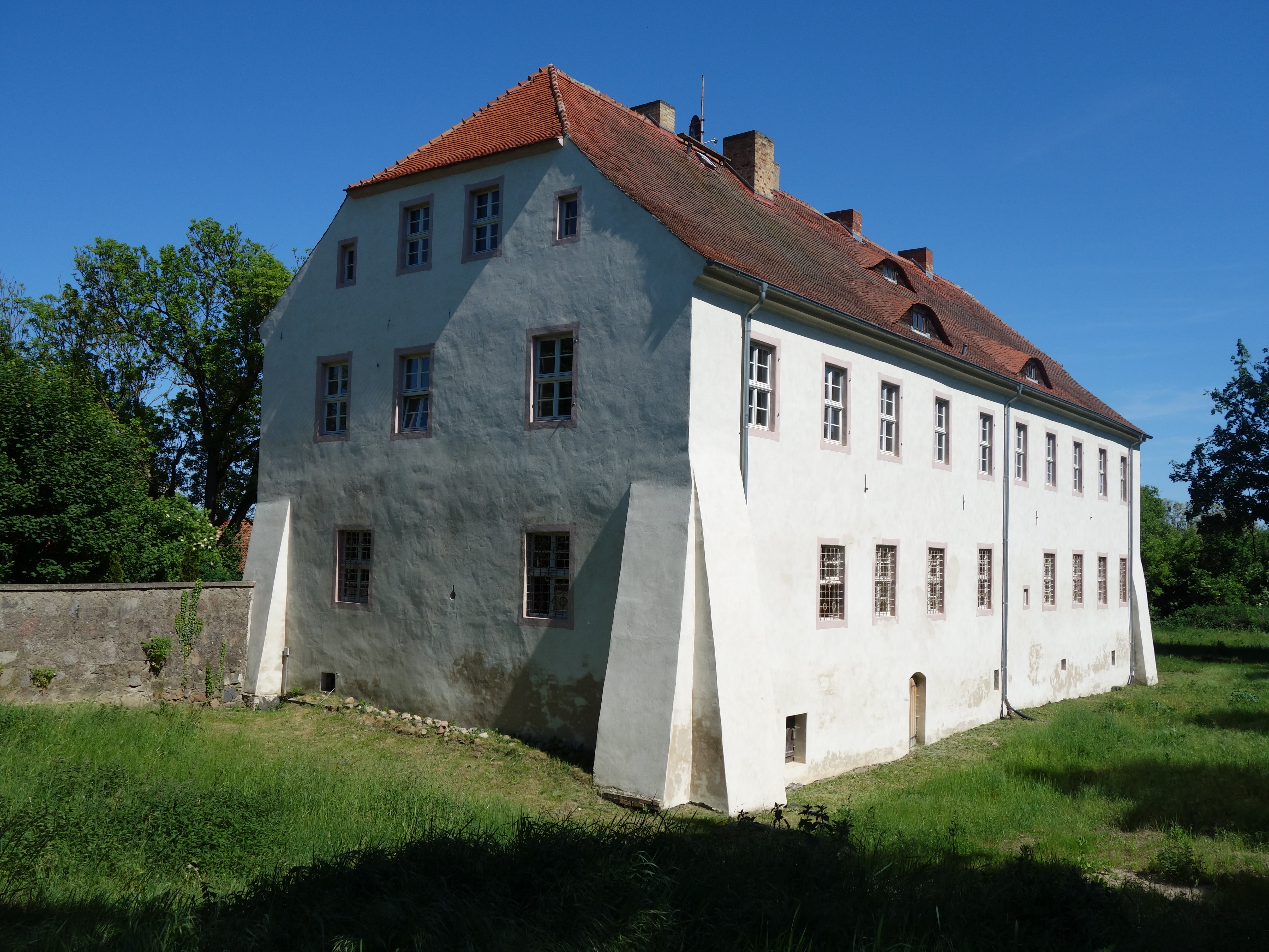 Western view of the manor in Neuenhagen , Bad Freienwalde municipality, Märkisch-Oderland district, Brandenburg state, Germany